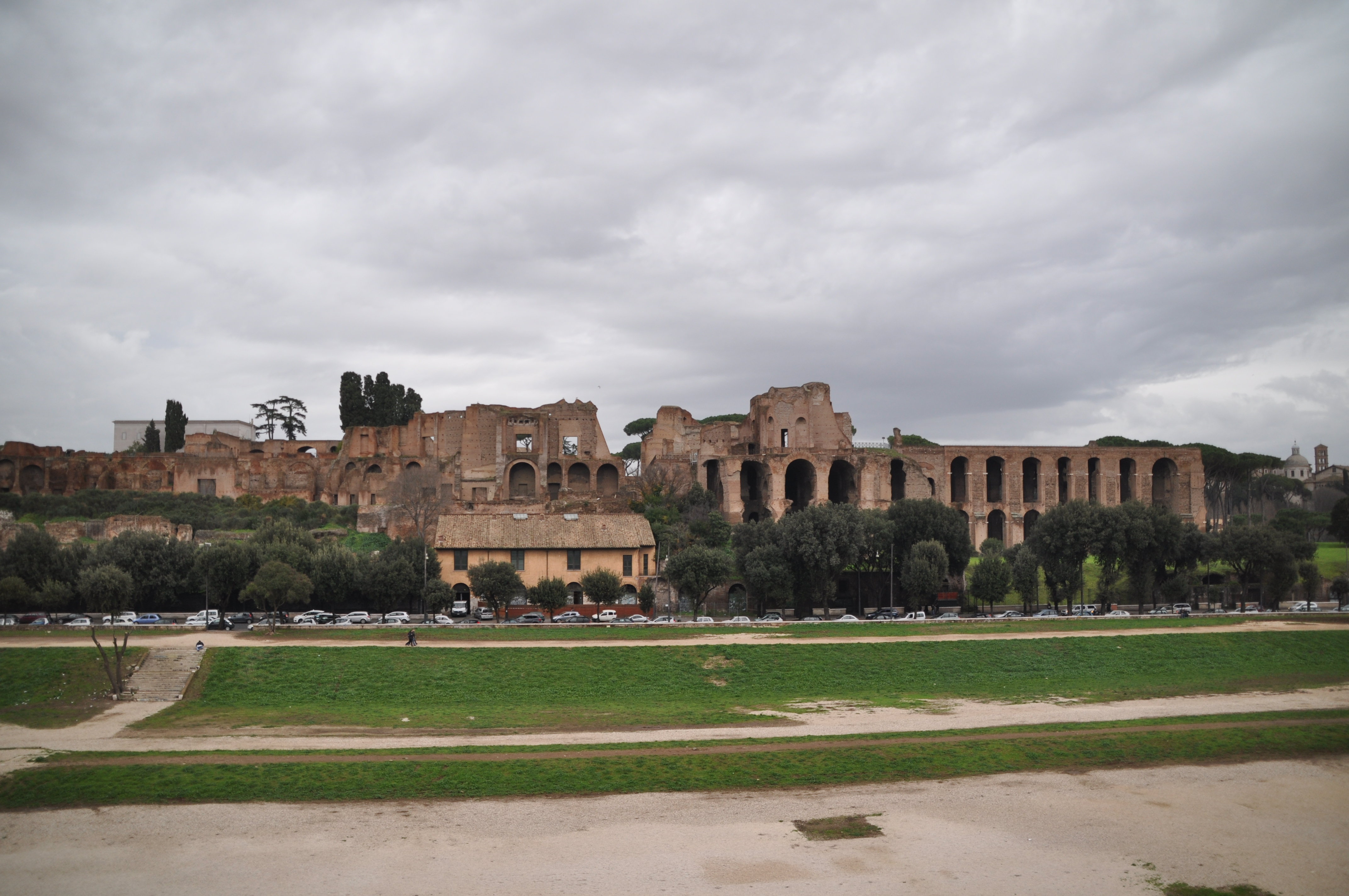 Rome, Circus Maximus - Vista del Circo Massimo in Roma